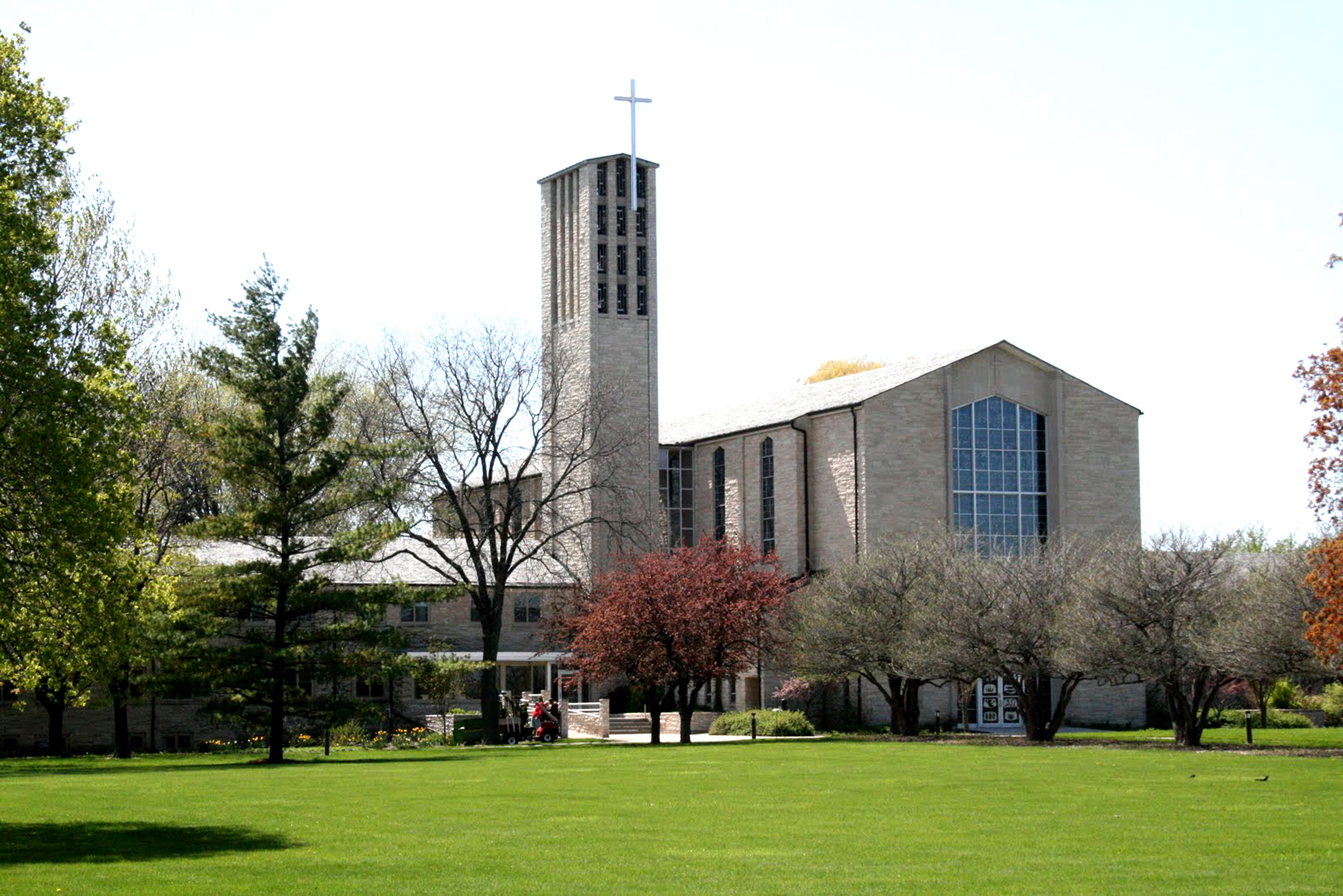 Norbertine Shrine of Saint Joseph. The shrine was moved from the abbey to St. Joseph Church at St. Norbert College in 2015.